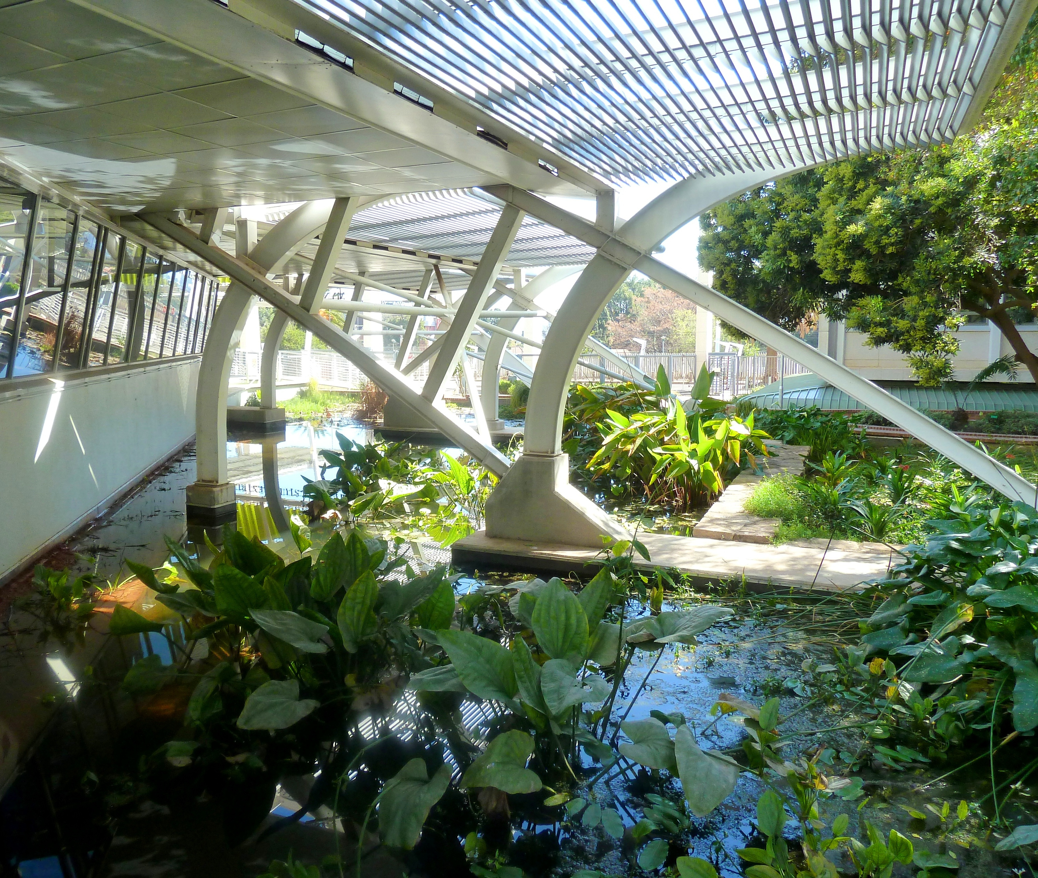 Rainwater harvesting garden, in 2012/13 the newest section of the Manie van der Schijff Botanical Garden at the University of Pretoria